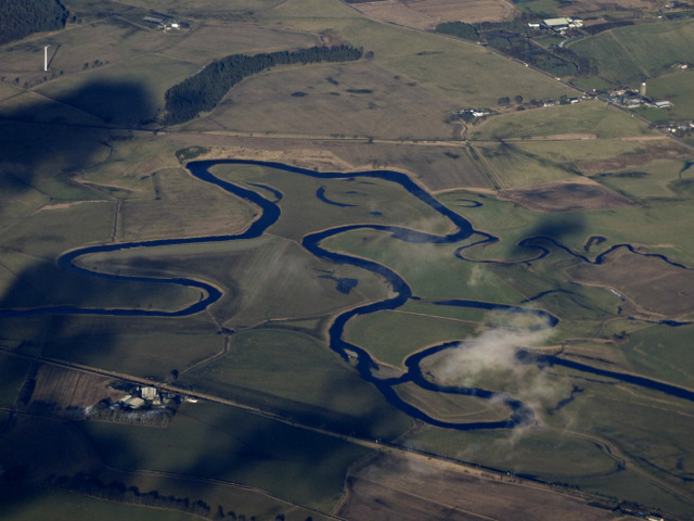 The Carstairs meanders from the air